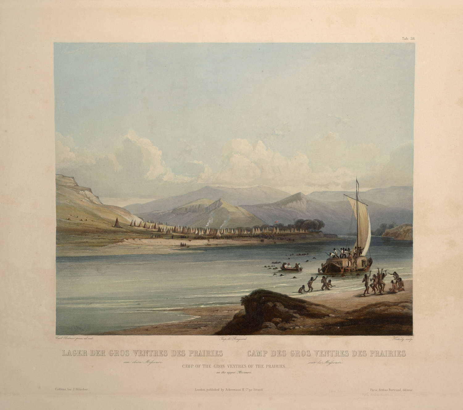 Aquatint after Karl Bodmer (1809 - 1893)